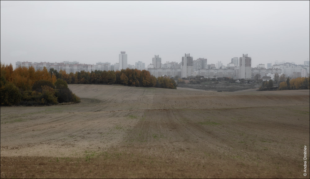 Views of Minsk, Belarus